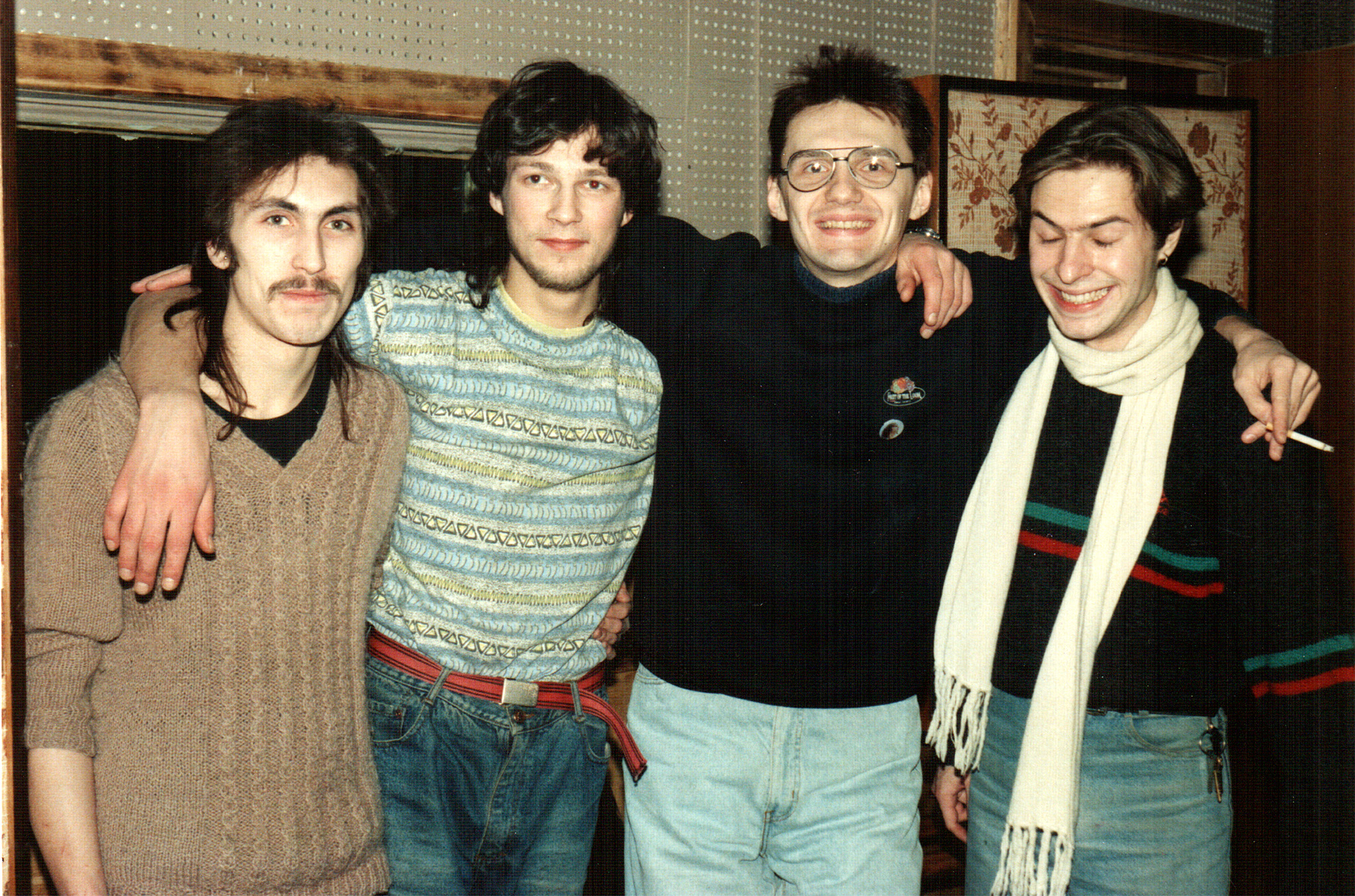 This photograph is a digital reproduction of my original kinofilm shot of the Russian rock band "Nol" (Zero in English), made in 1991 in St. Petersburg, Russia, during a studio rehearsal on the Petrogradskaya Storona of the city. From left to right: Aleksey Nikolayev, Feodor Tshistyakov, Dmitry Gusakov, Georgy Starikov.